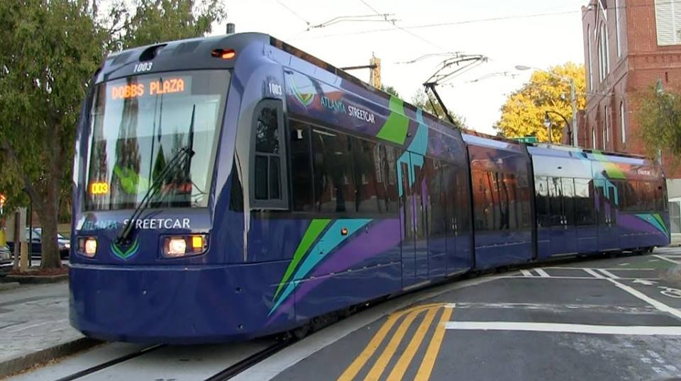 S70 Streetcar version operating on the Atlanta Streetcar line. Car 1003 is turning onto Auburn Avenue from Jackson Street, approaching the line's King Historic District stop.